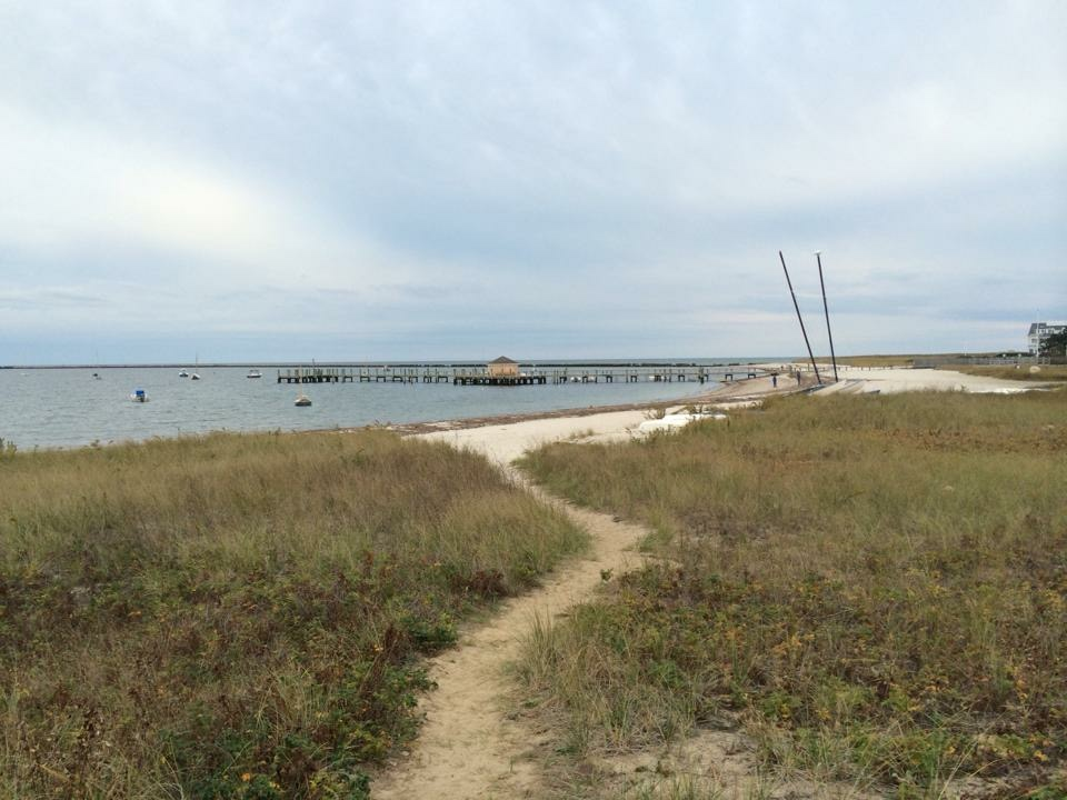 East Beach, Hyannisport, MA